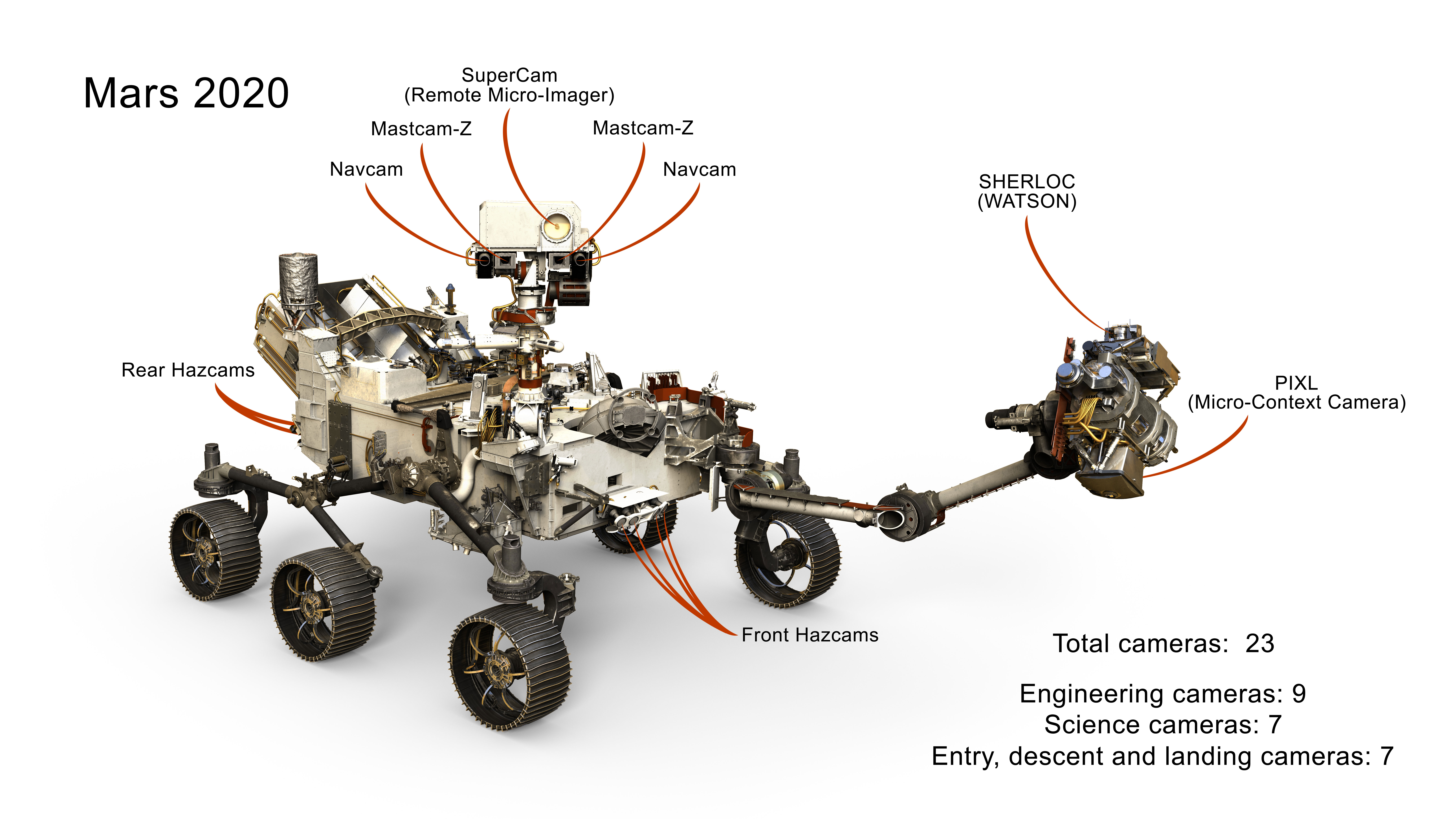 PIA22103: Cameras on Mars 2020 Rover This image presents a selection of the 23 cameras on NASA's 2020 Mars rover. Many are improved versions of the cameras on the Curiosity rover, with a few new additions as well. NASA's Jet Propulsion Laboratory will build and manage operations of the Mars 2020 rover for the NASA Science Mission Directorate at the agency's headquarters in Washington. More information about Mars 2020's cameras is at For more information about the mission, go to